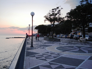 Picture of seafront sunset in Diamante, Italy, self made by me in 2007.